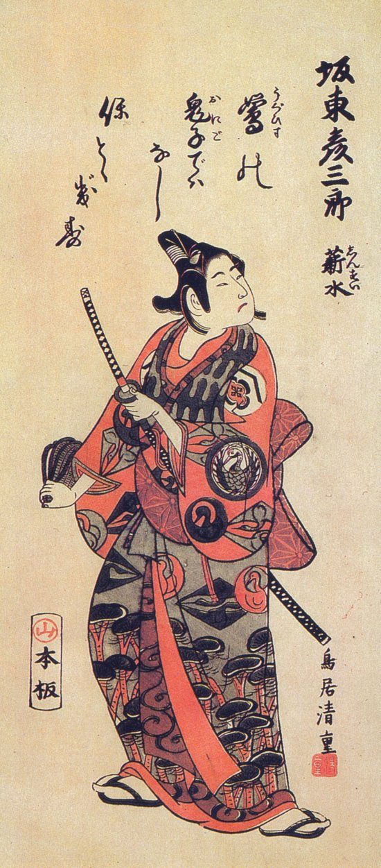 Benizuri-e of kabuki actor Bando Hikosaburo II, with an japanese poem in the upper part of the picture.